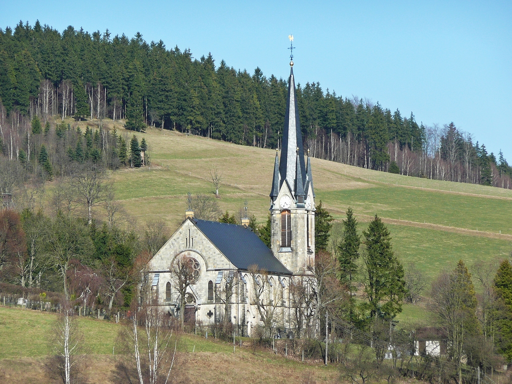 This image shows the evangelich church in Rechenberg in the Eastern Ore Mountains.